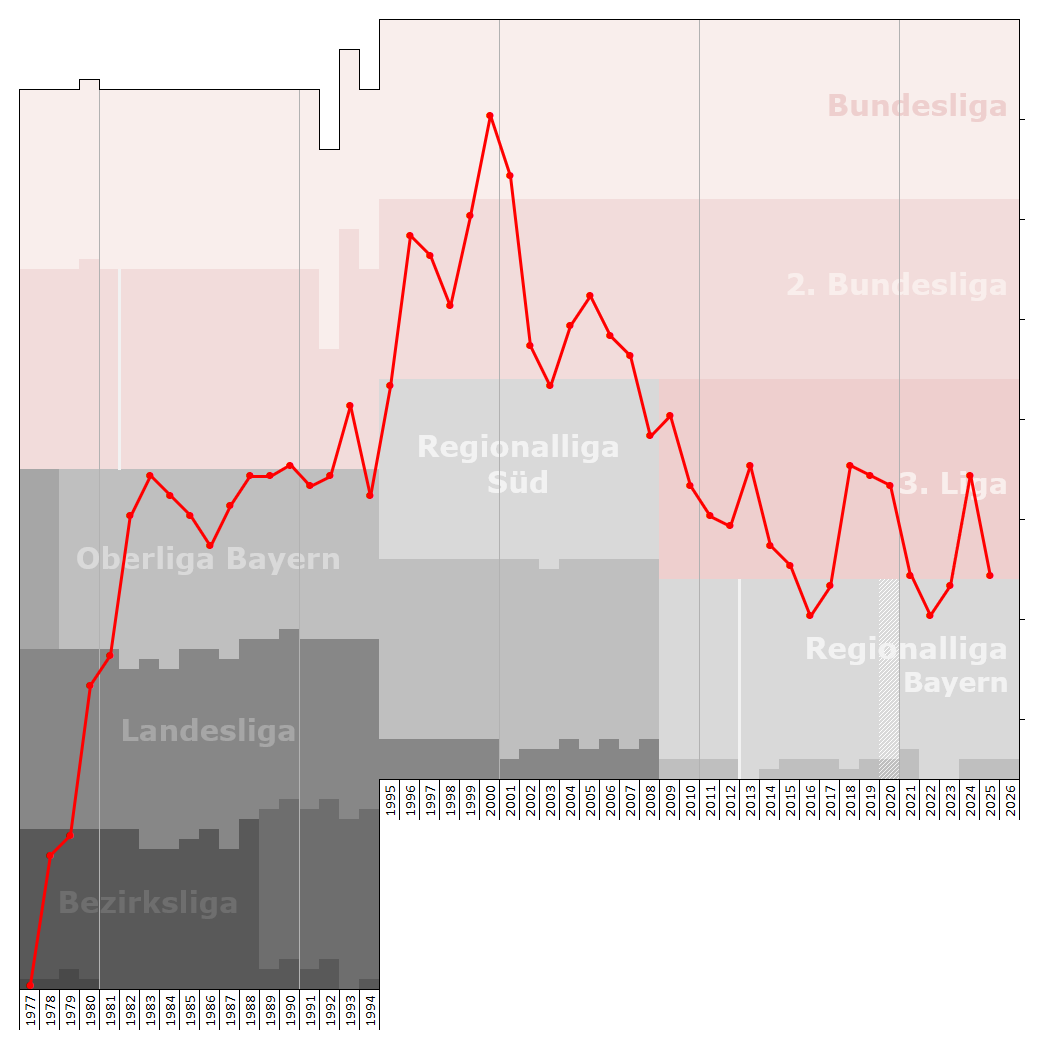 Chart of end-season table positions of SpVgg Unterhaching in the football league system of Germany. Data source: RSSSF, wikipedia, f-archiv.de, fussball.de